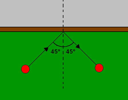 physique